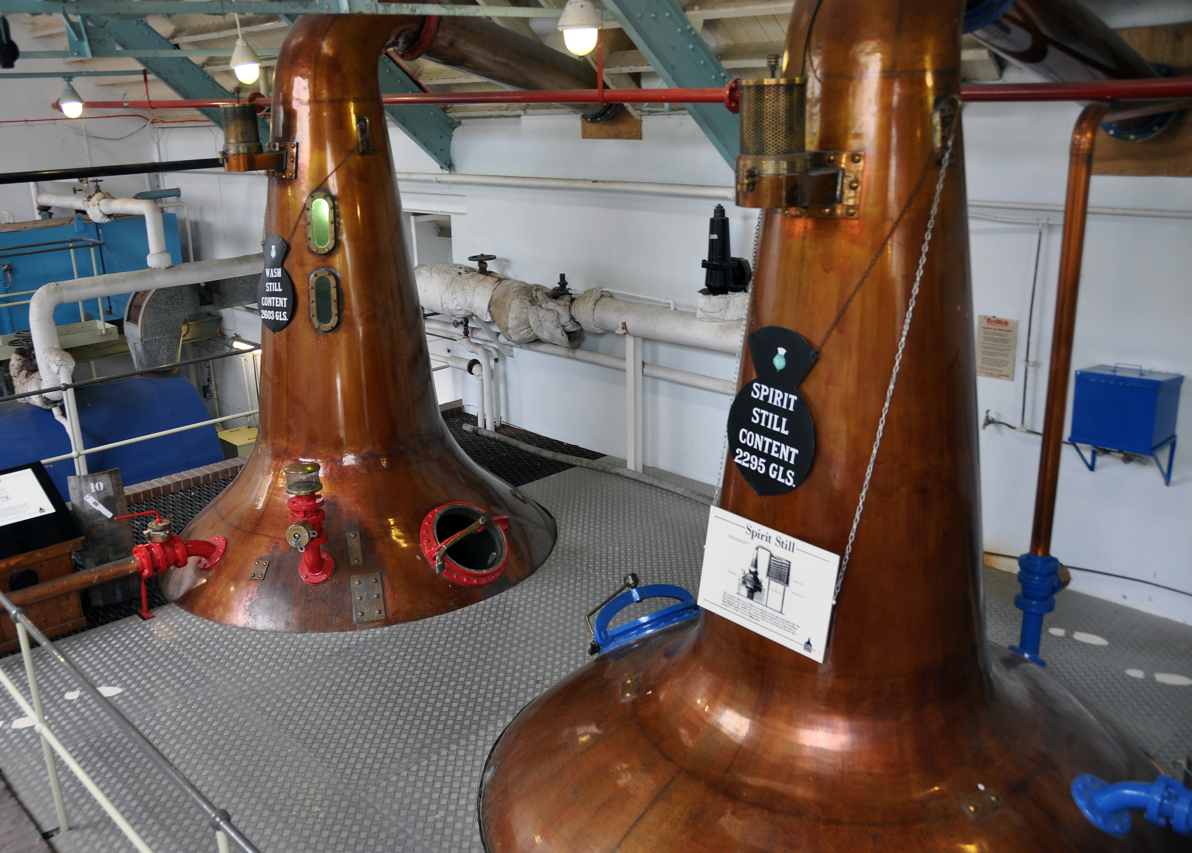 The two stills at Dallas Dhu Distillery, near Forres in Scotland